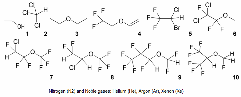 General anesthetics simplicity and variety of structures (1 - ethanol, 2 - chloroform, 3 - diethyl ether, 4 -fluroxene, 5 - halothane, 6 - methoxyflurane, 7 - enflurane, 8 - isoflurane, 9 - desflurane, 10 - sevoflurane), see: Theories of general anaesthetic action and General anaesthetic